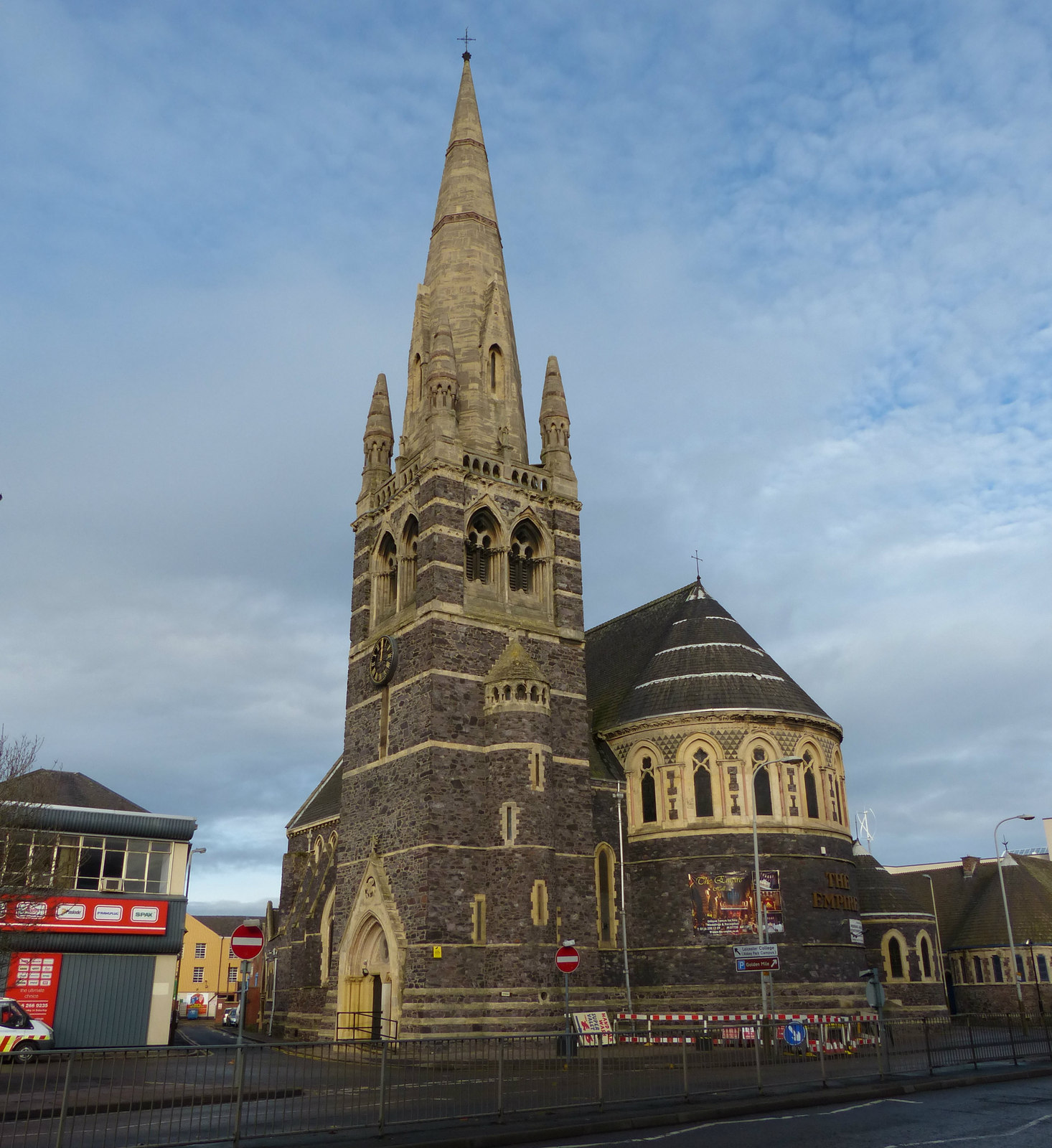 Former Church of St Mark in Leicester. Located along Belgrave Gate this church is now called The Empire, and is a Conference & Banqueting Hall. It was constructed between 1869-1872 in the Gothic Style.